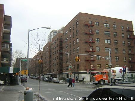 Boulevards in Rego Park, Queens, New York City.